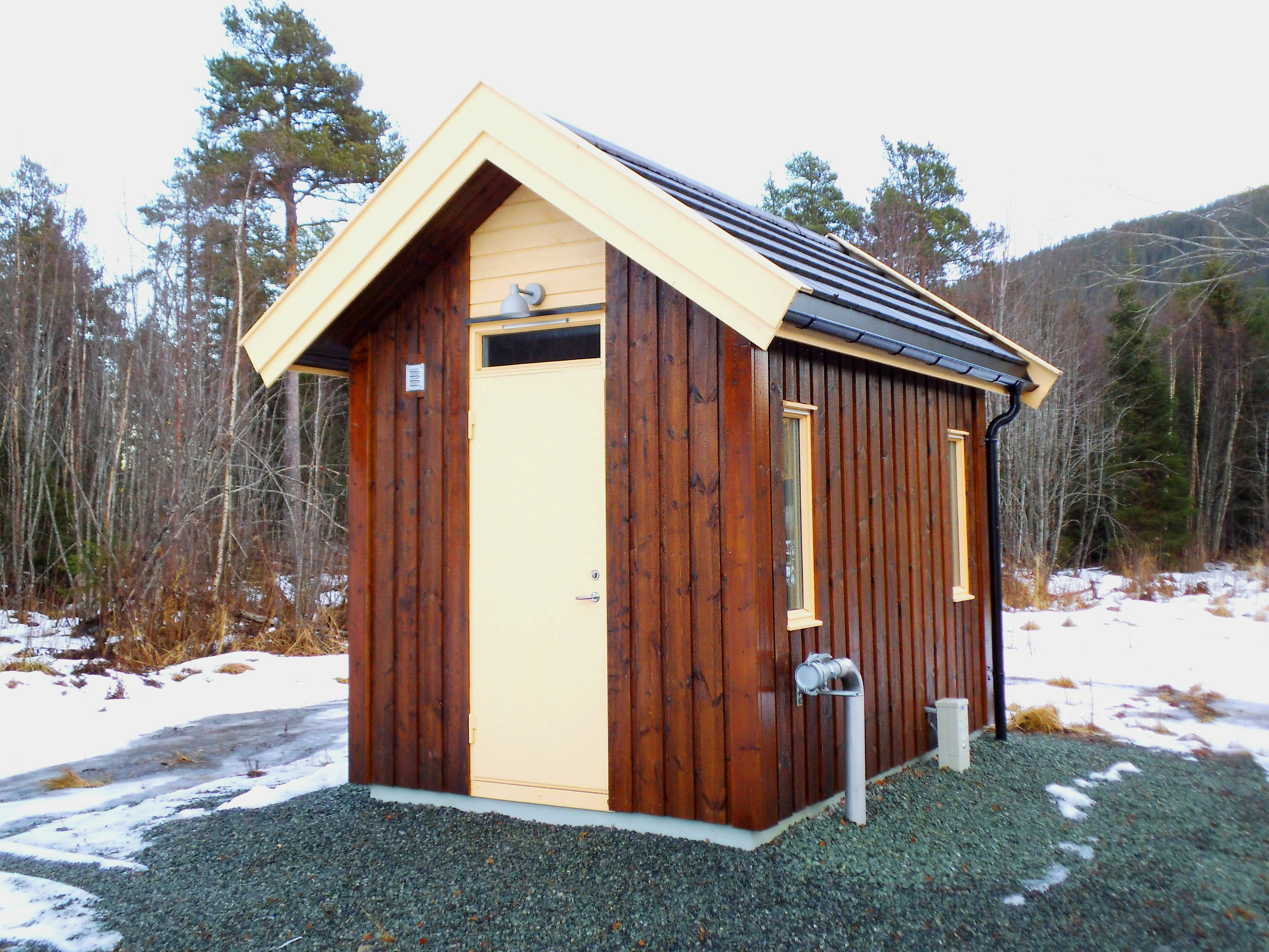 A pumping station for spill water in Norway. The station was built ca 2010.